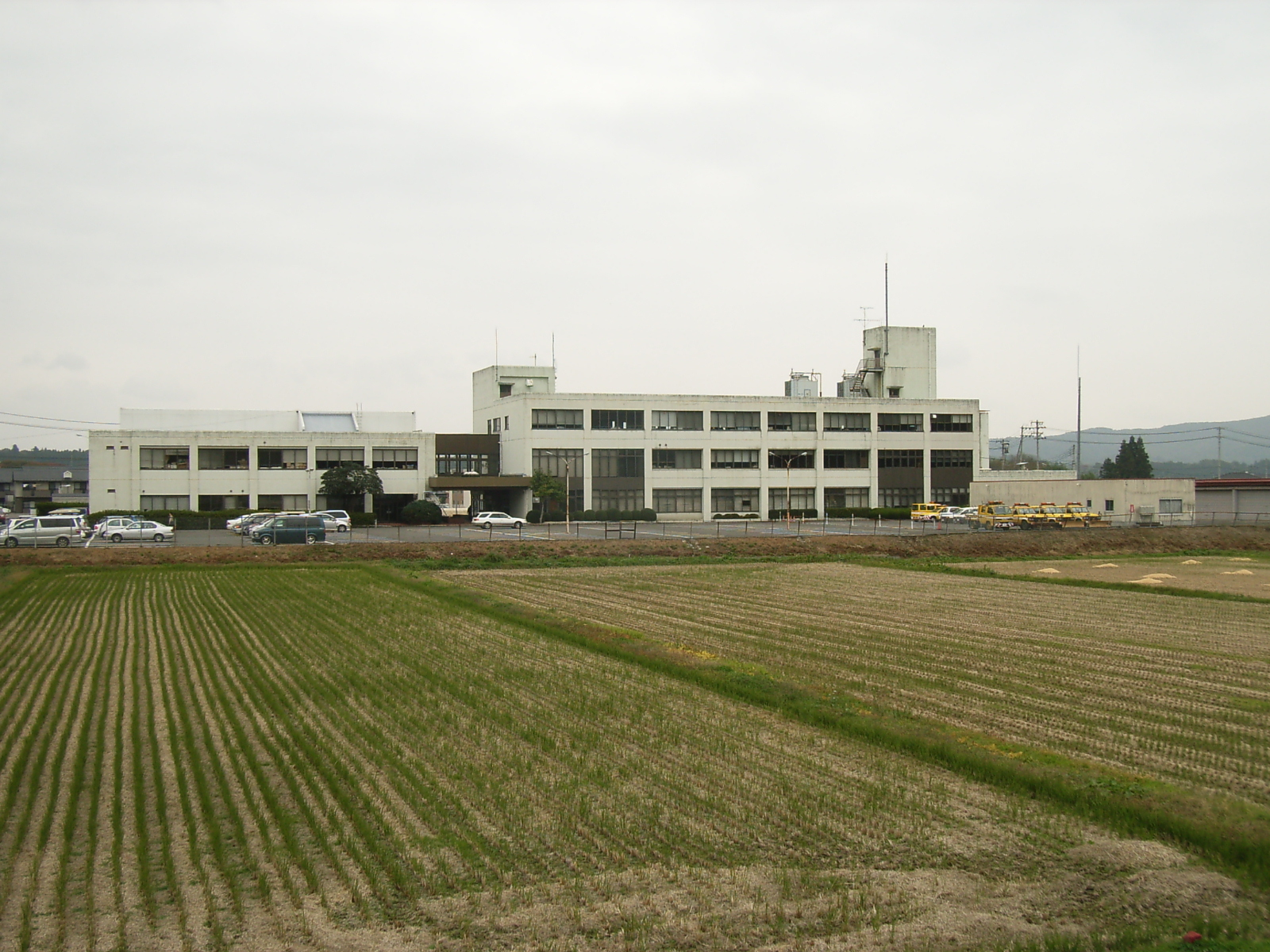 Miyagi branch of the Aoba Ward Office, Sendai City. Sendai, Miyagi prefecture, Japan.